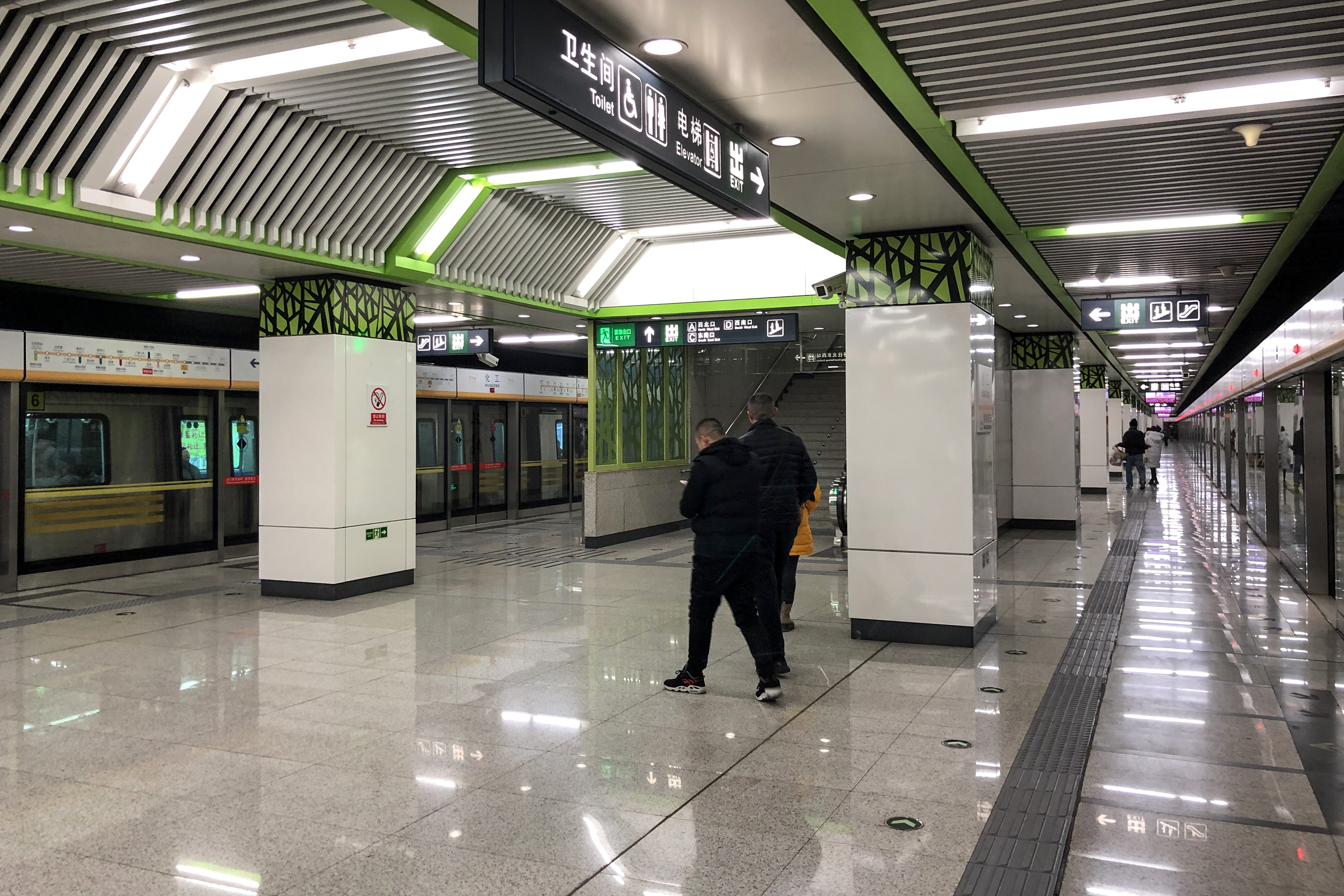 Chemical industrial station... the name is a bit Sovietesque, I think.